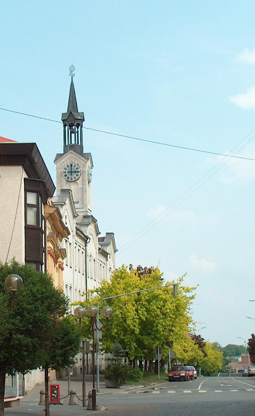 Building of Obchodní akademie Kolín.